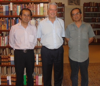 Ronald Gamarra, Mario Vargas Llosa and Carlos Landeo in a meeting for human right issues.